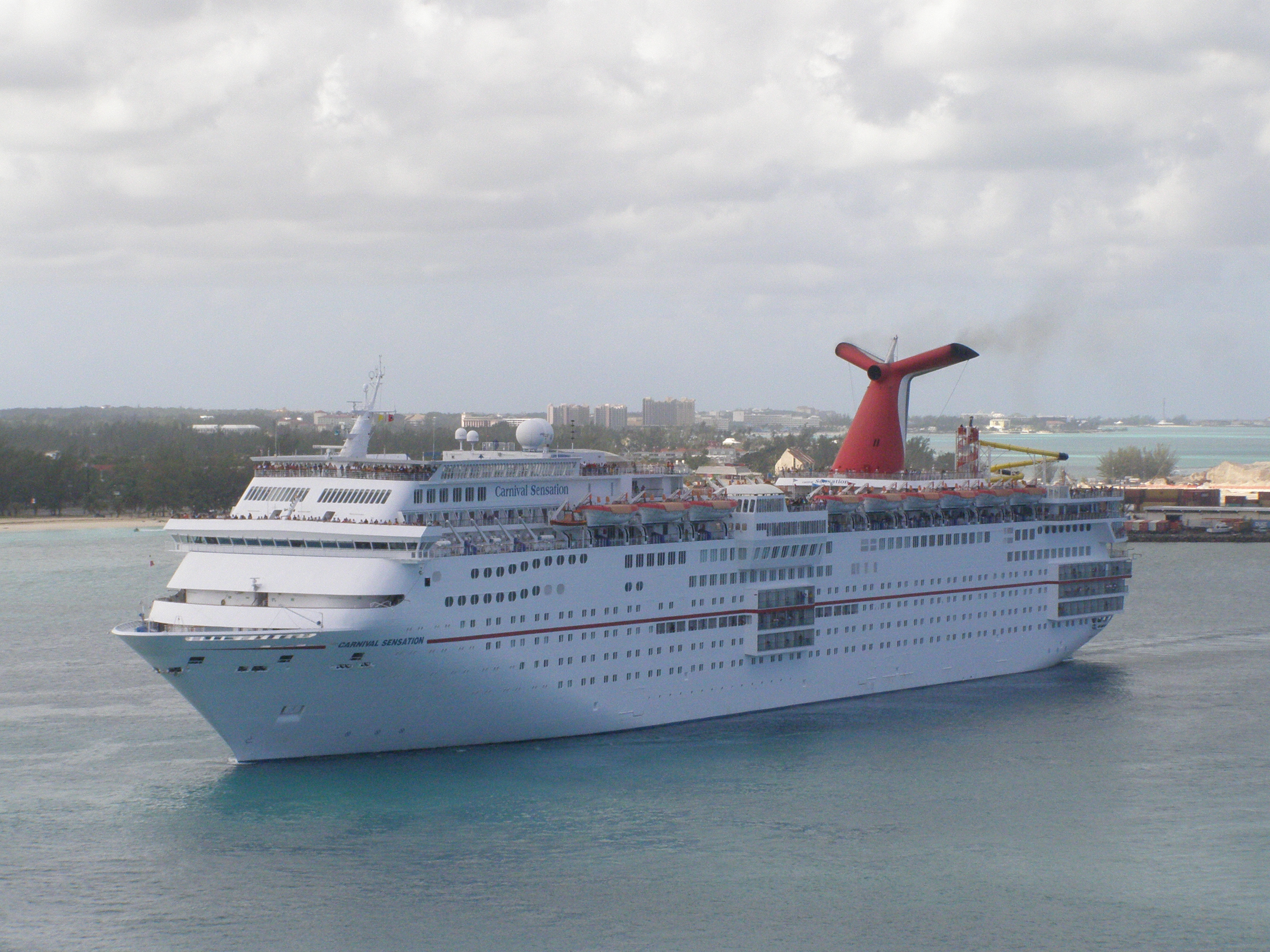 The Carnival Sensation arriving in Nassau, Bahamas on 12/23/2011.